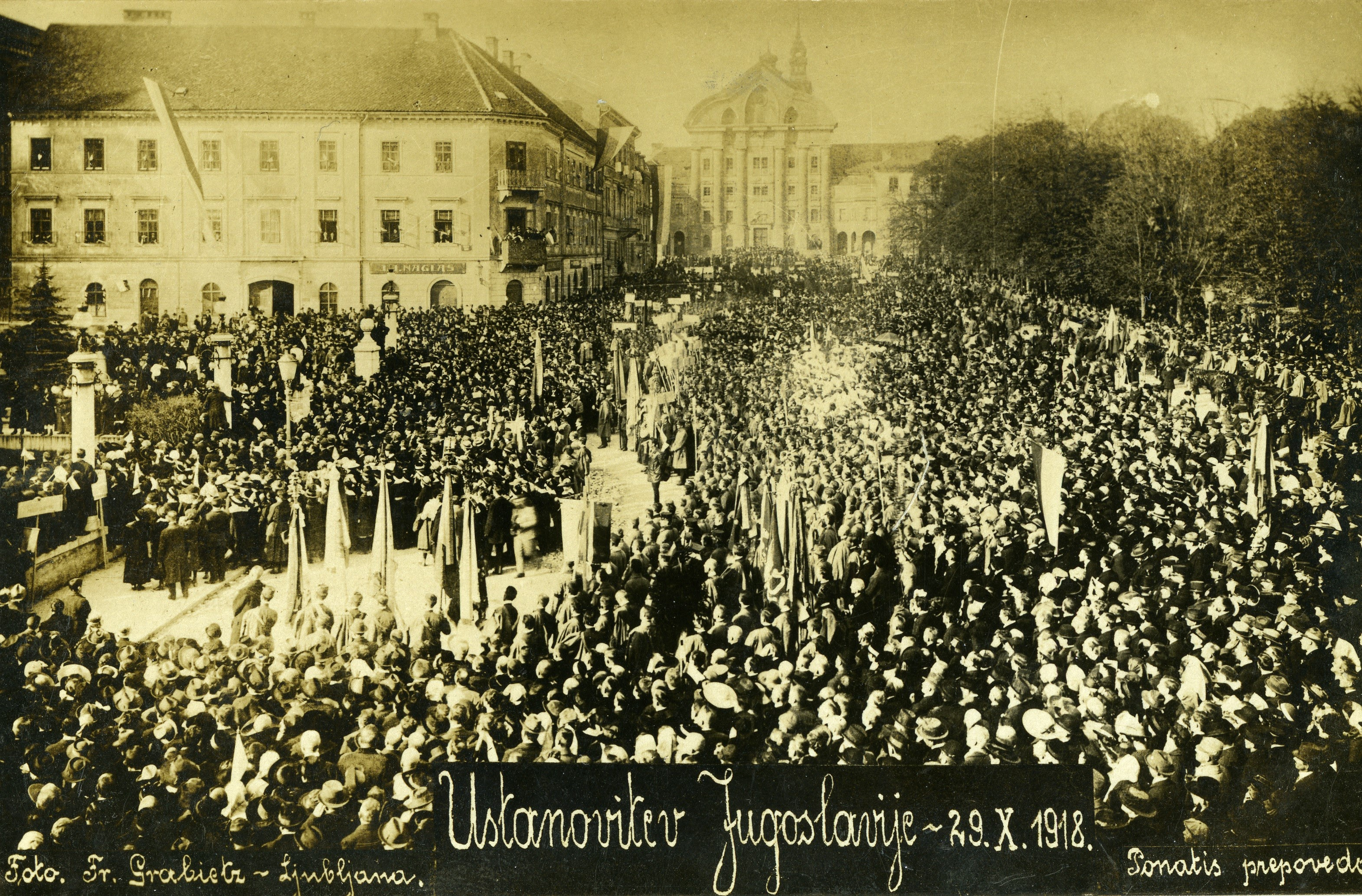 congress fall of Austria Hungary 1918 celebration